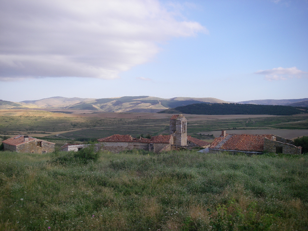 View of Vellosillo (Soria, Spain)